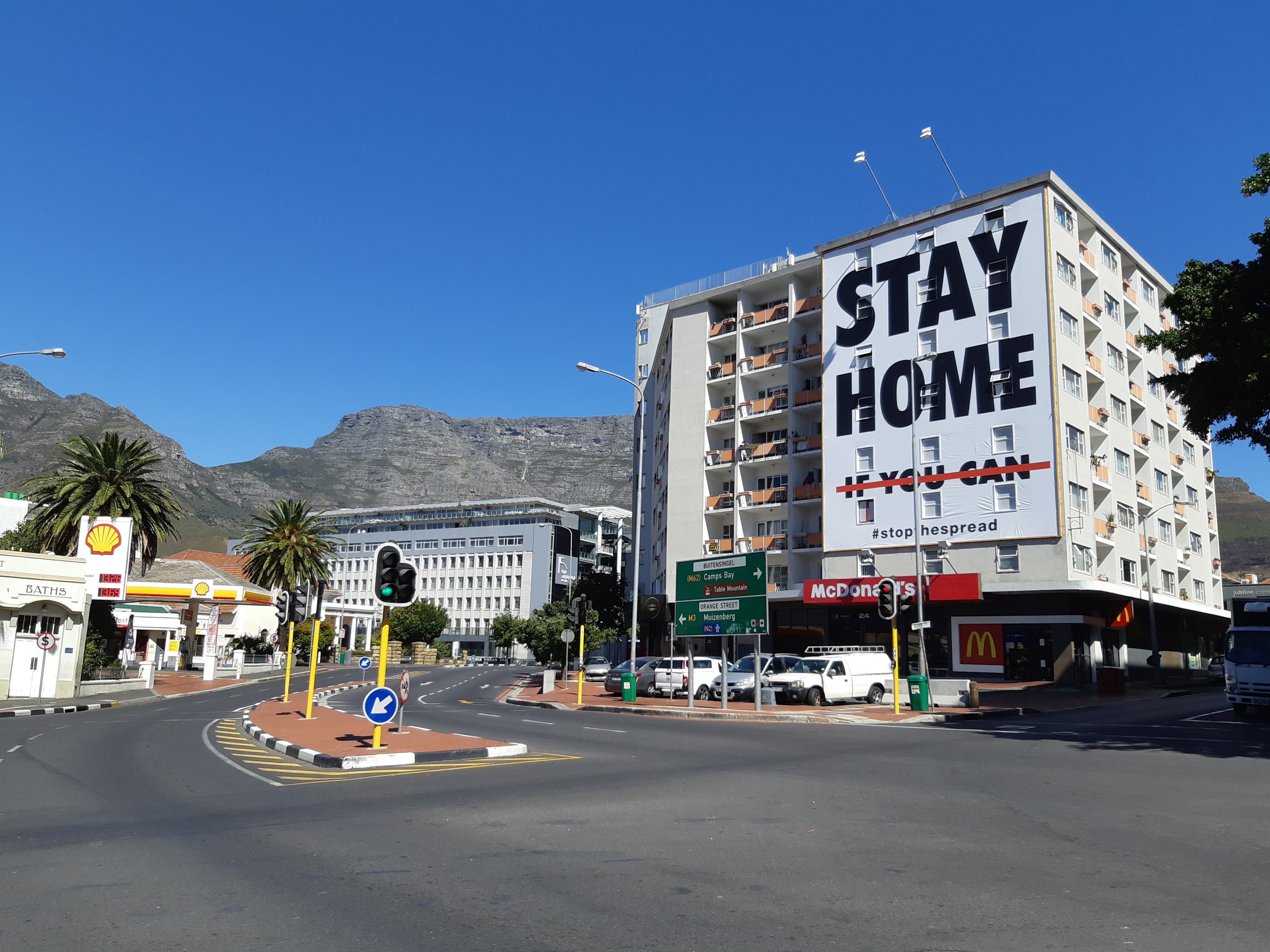 A billboard on the building at the corner of Long Street and Orange Street in Cape Town, South Africa calls on South Africans to "Stay at Home" during the lockdown period to help government's efforts to contain the pandemic.